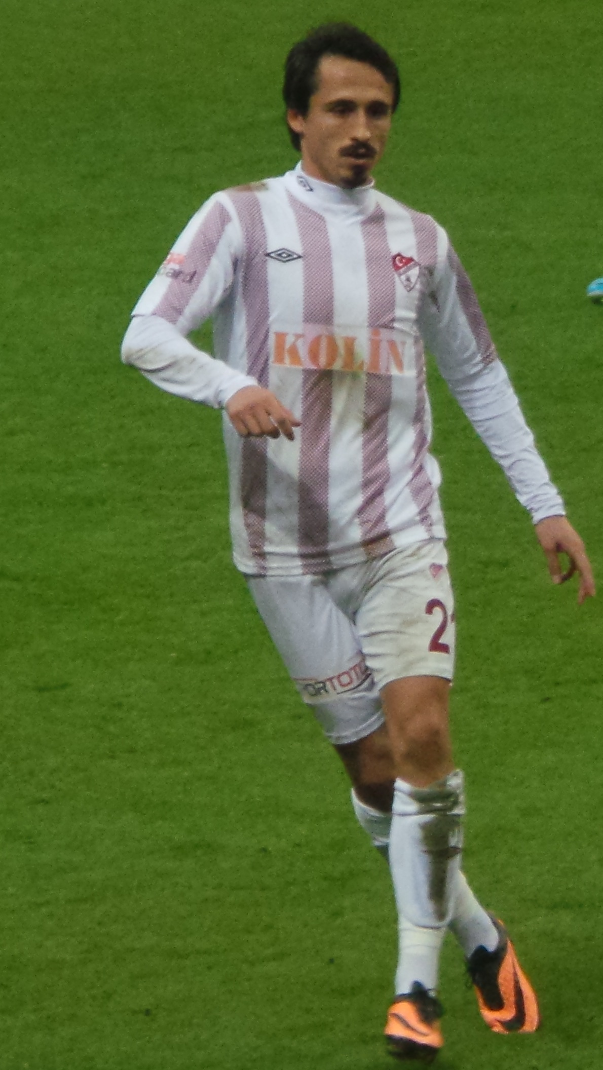 Serdar Özkan playing vs GS